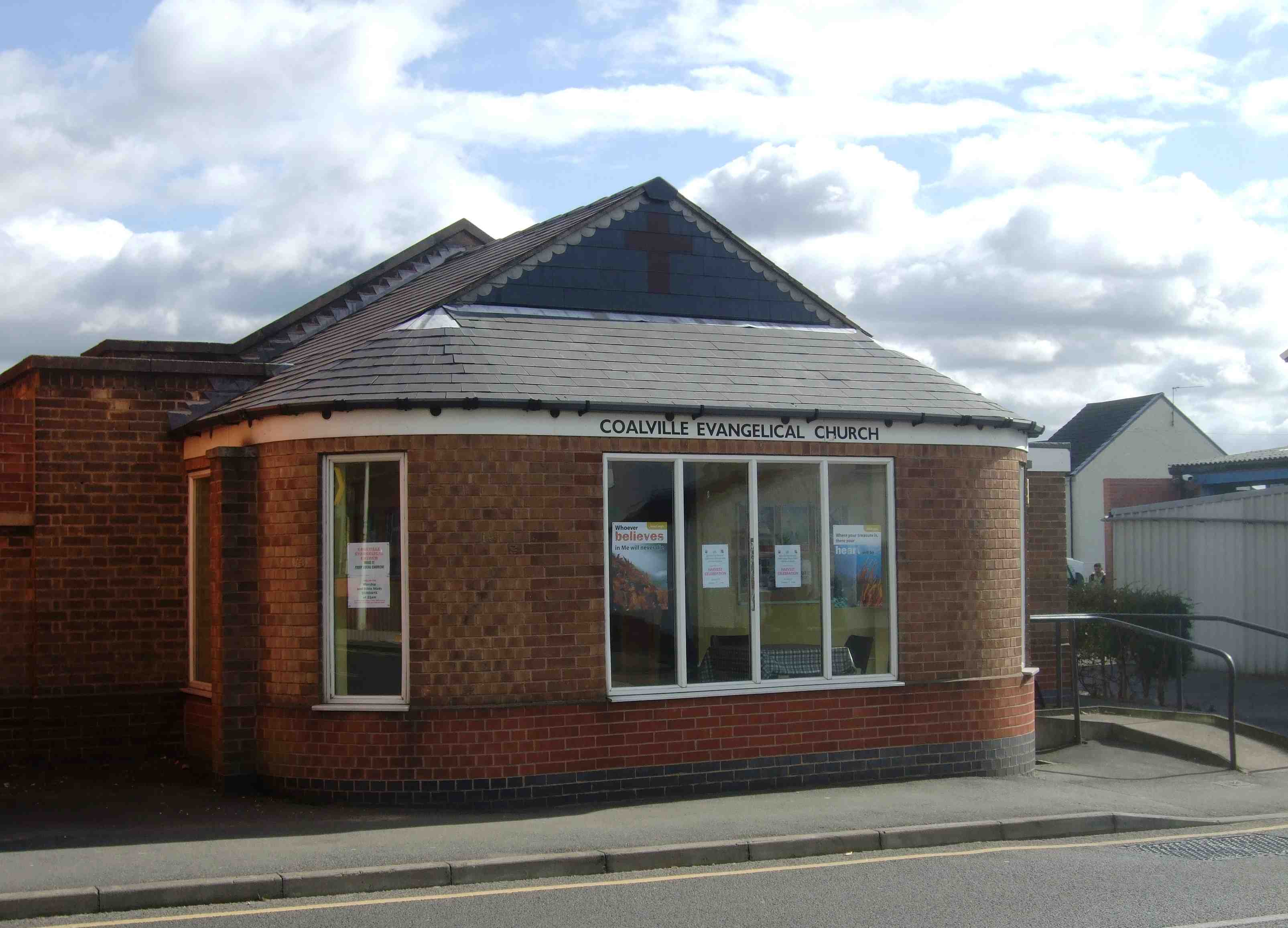 Evangelical Church at Coalville, Leicestershire, England